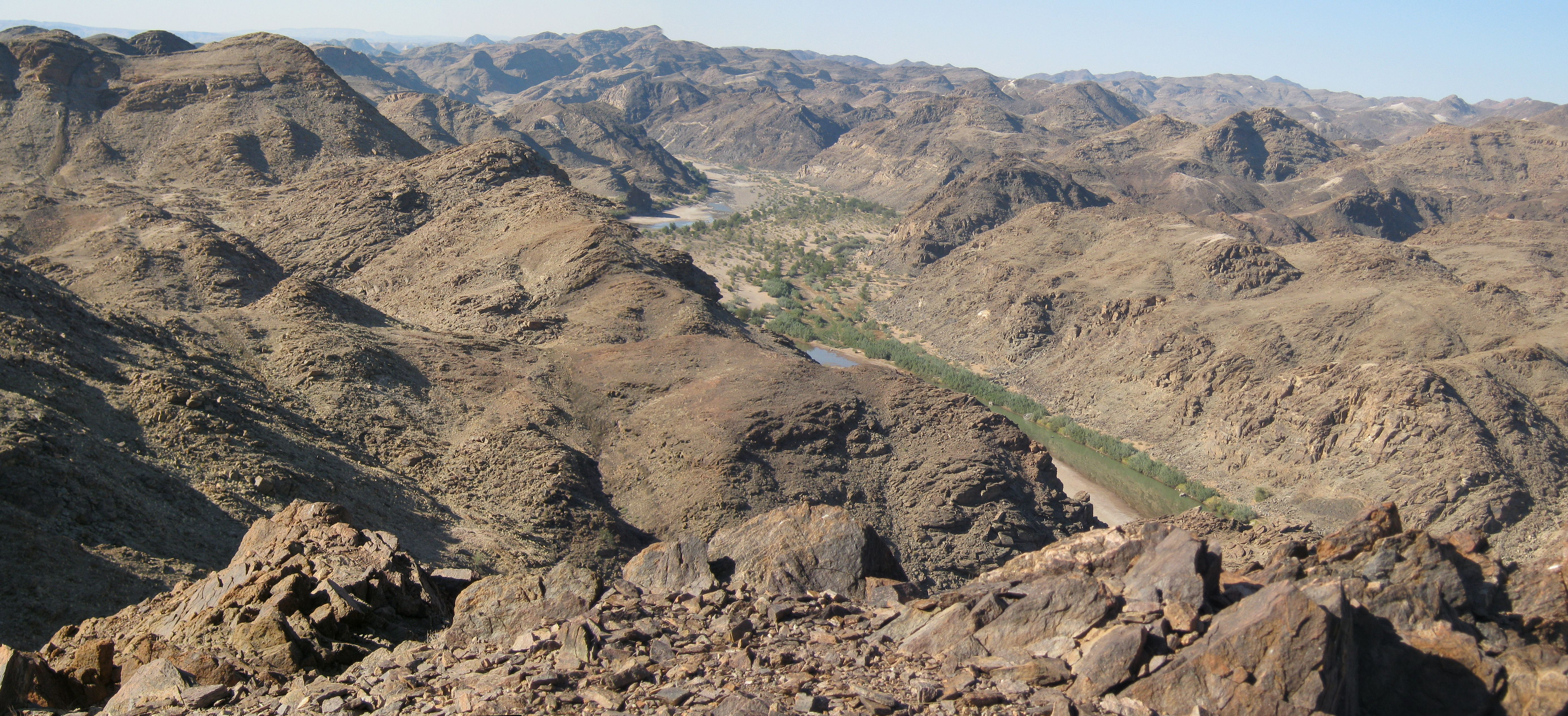 Last stretch of the Fish River Canyon Hike